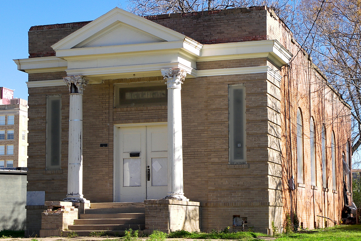 Temple Freda in Bryan, Texas, United States was built in 1913. It was listed on the National Register of Historic Places on September 22, 1983.